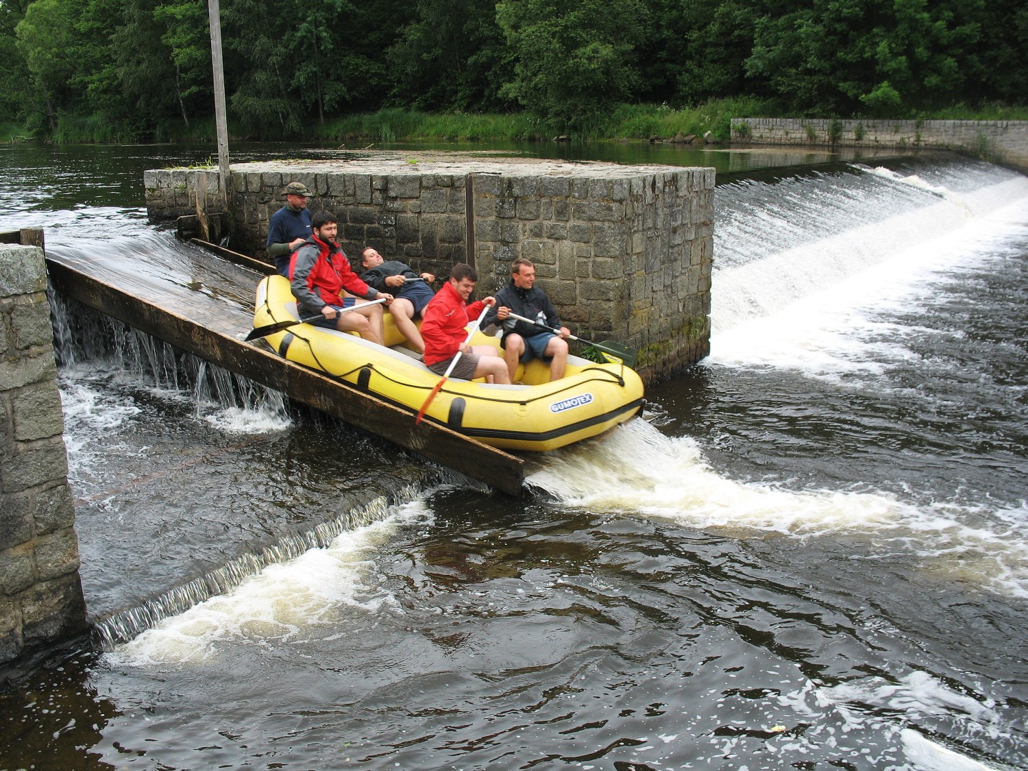 Weir Horní Mlýn by Herbertov, Vltava River, the Czech Republic